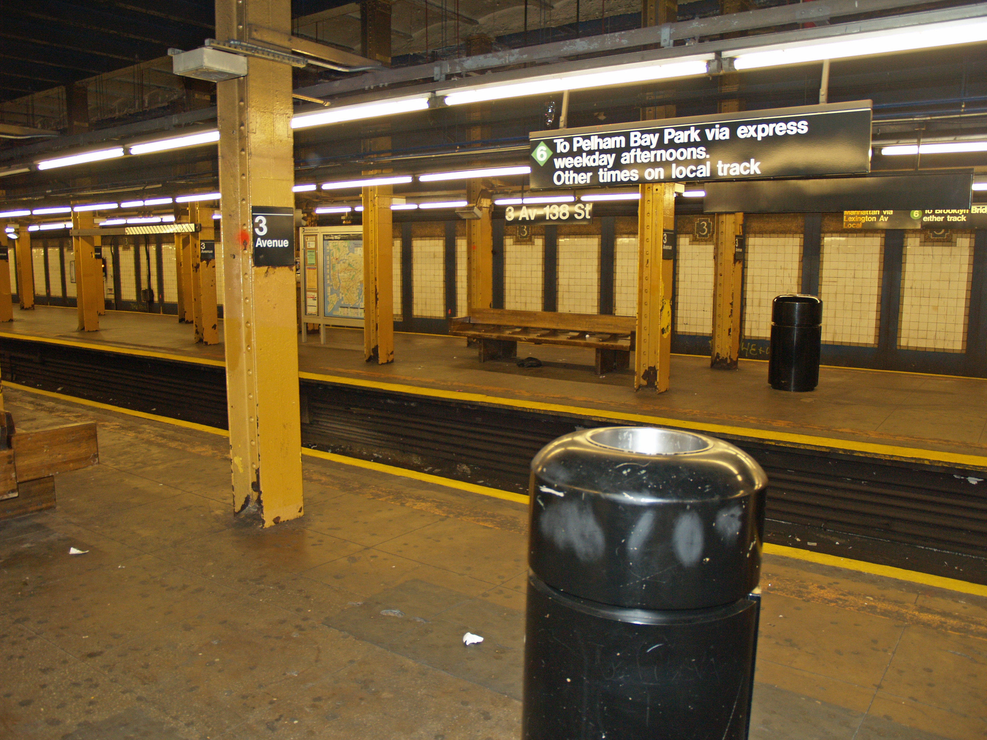 Third Avenue–138th Street (IRT Pelham Line) by David Shankbone